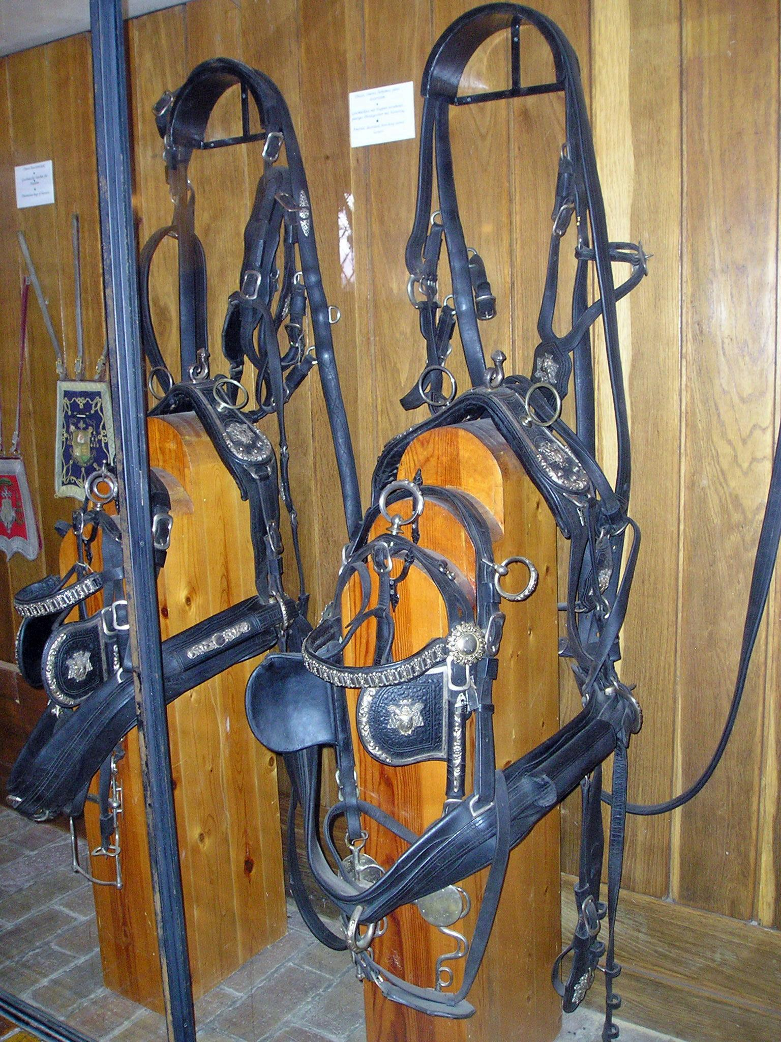 Horse equipment in hungary